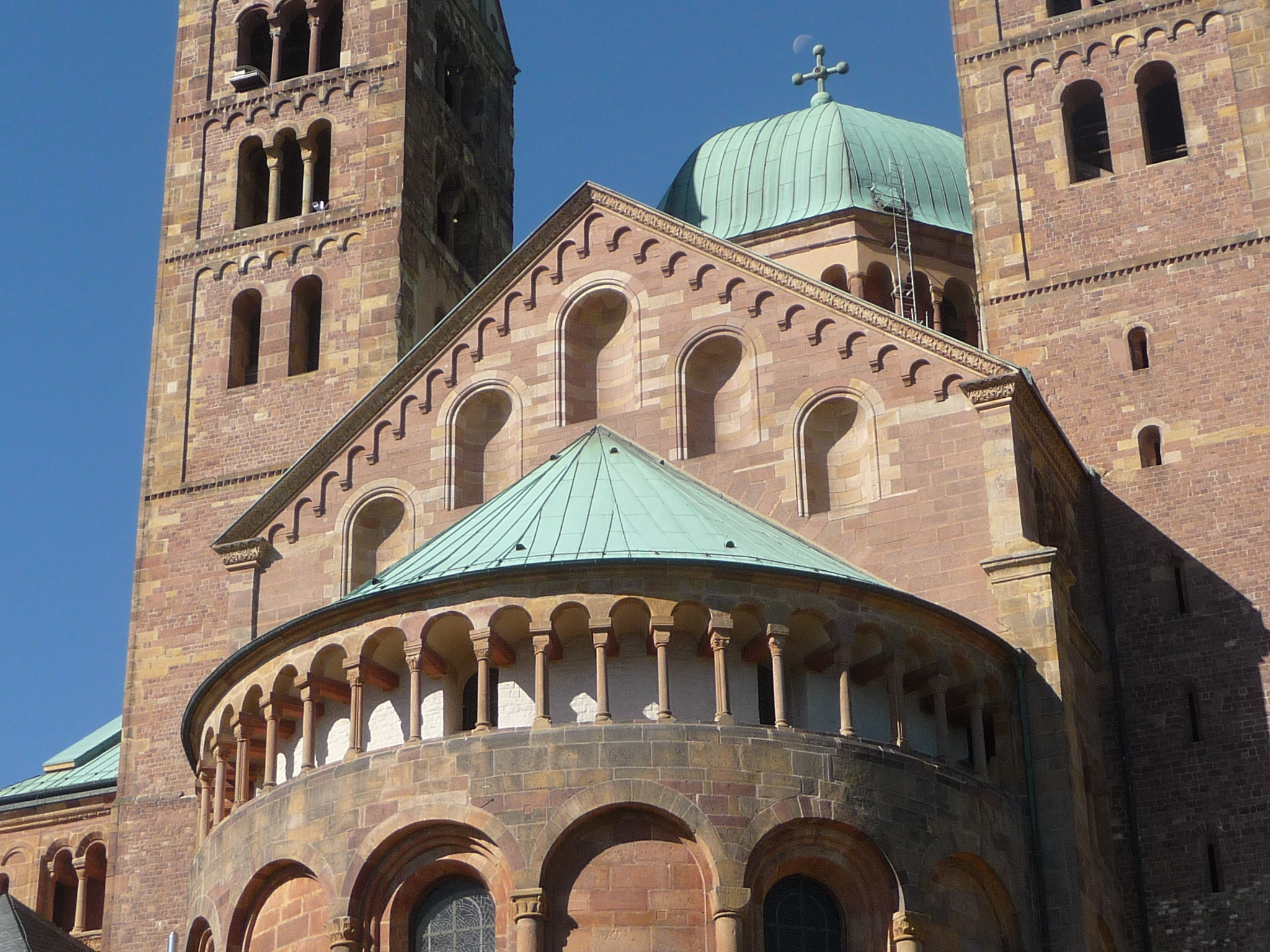 East front of Speyer Cathedral, Germany